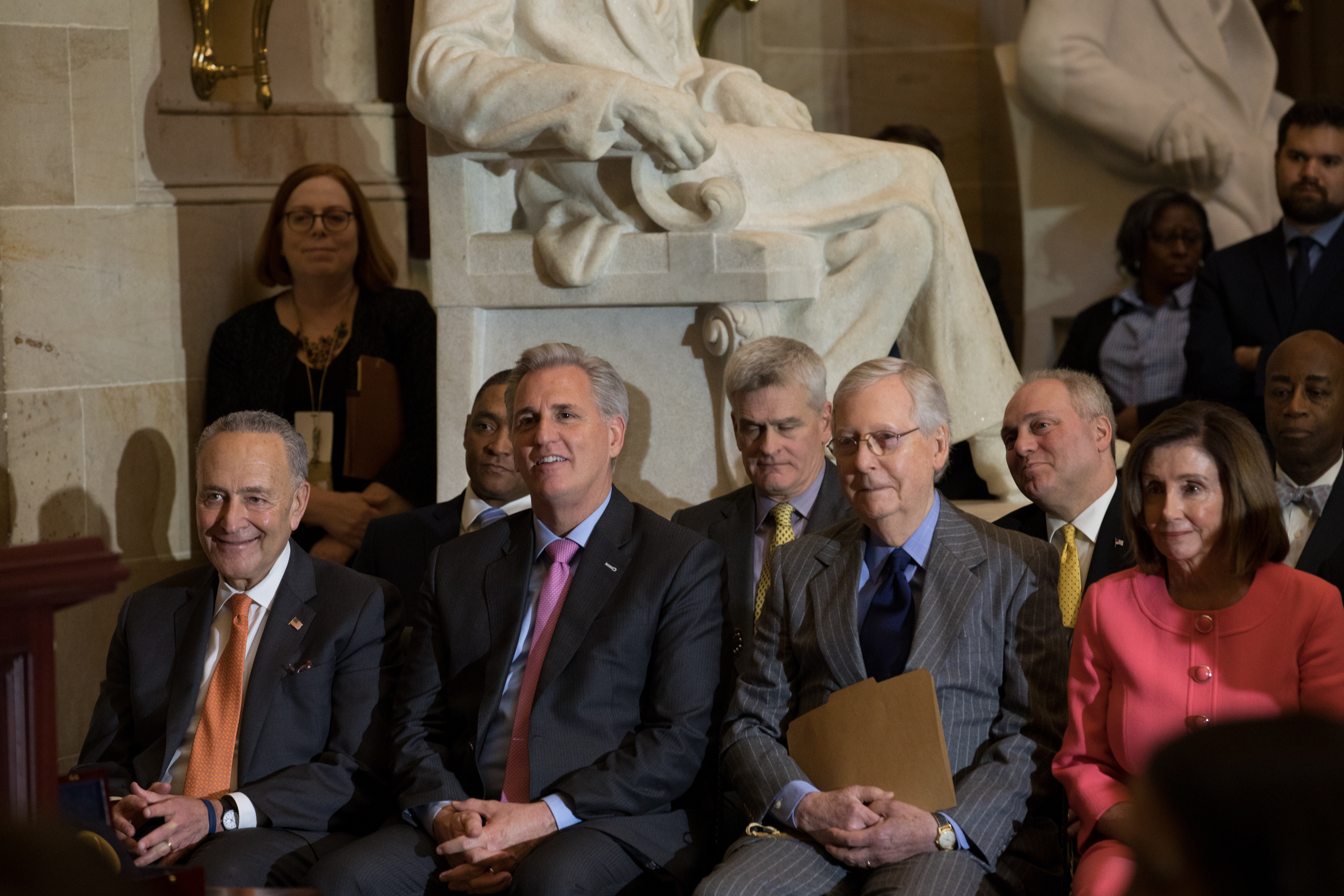 MedalCeremony_1_011520 (33 of 69)